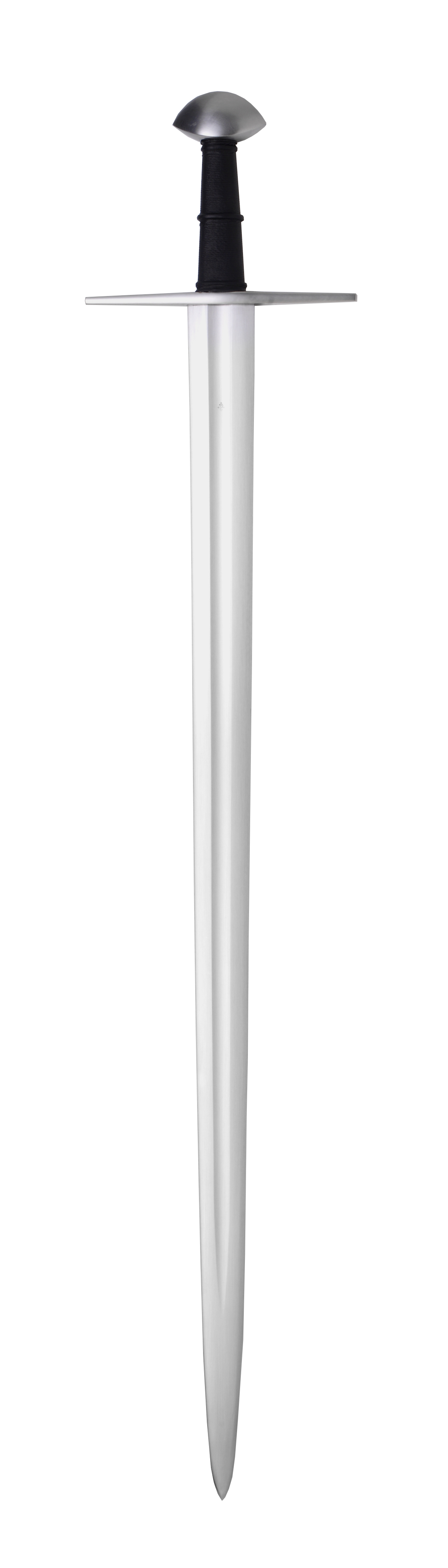 Replica of a viking or early medieval sword with spike-hilt (gaddhjalt) and brazil-nut-shaped pommel; Gaddhjalt Limited Edition by Albion Swords.